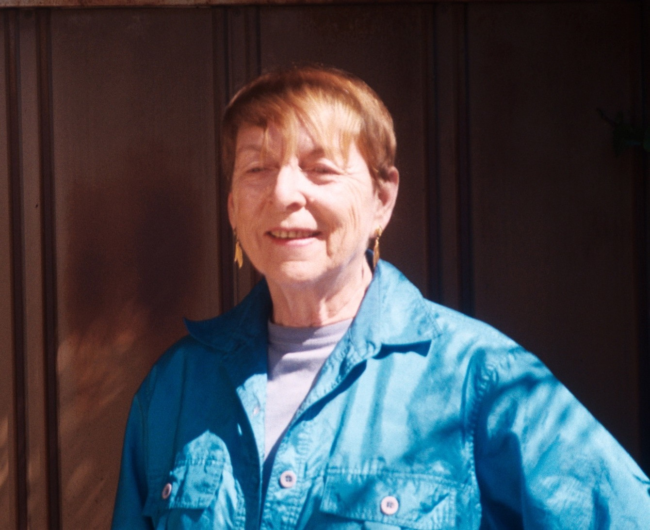 This image is a photograph of American composer Elaine Barkin, taken in Los Angeles, CA, in 2005.